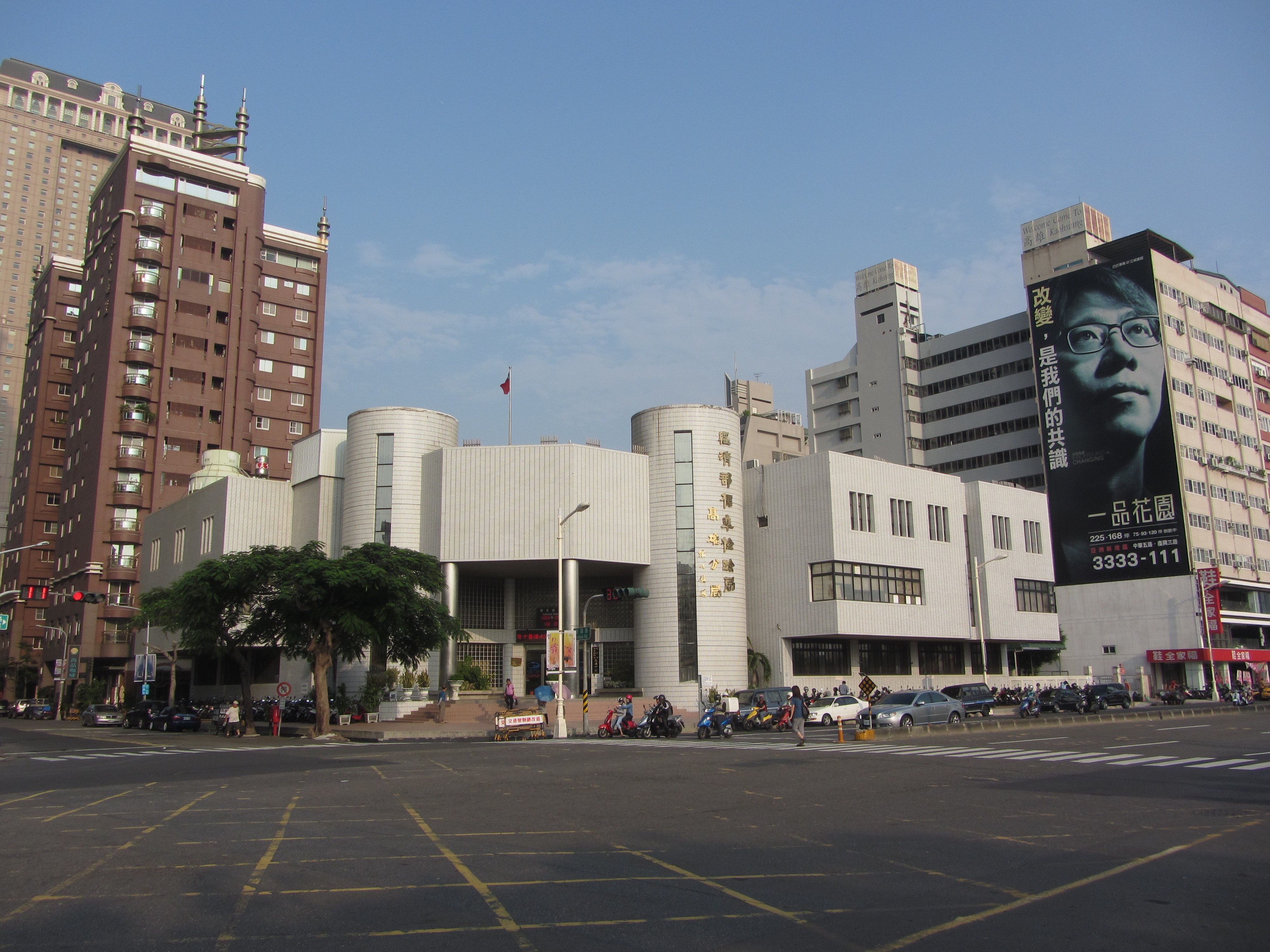 Bureau of Standards, Metrology and Inspection of the Ministry of Economic Affairs of the Republic of China - Kaohsiung Branch